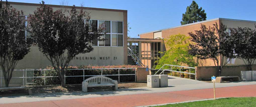 Cal Poly Engineering West Building Photo by: Samuel Li